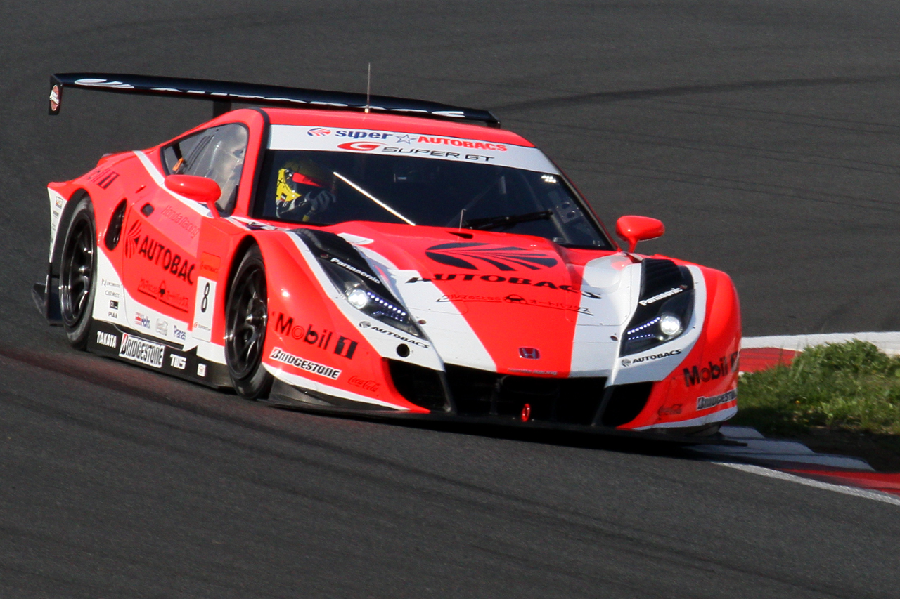 Super GT 2010 Rd.3 Fuji GT 400km: Ralph Firman (Autobacs Racing Team Aguri) driving the ARTA HSV-010 in the 'Super Lap' of the qualify session.